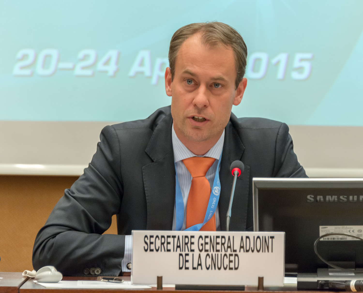 First plenary meeting of the Investment, Enterprise and Development Commission (20-24 April 2015) UNCTAD's annual Investment, Enterprise and Development Commission is a subsidiary body of the Trade and Development Board, which discusses key developments in the area of investment and enterprise policy and practice for sustainable development Opening statement Mr. Joakim Reiter, Deputy Secretary-General of UNCTAD Presentations Mr. James Zhan, Director, Division on Investment and Enterprise, UNCTAD Ms. Anne Miroux, Director, Division on Technology and Logistics, UNCTAD